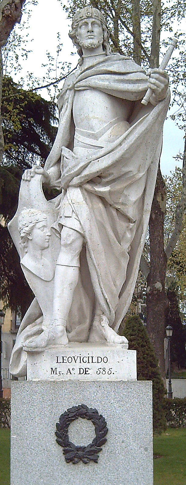 Statue of Liuvigild († 586) at the Plaza de Oriente (square) in Madrid (Spain). Sculpted in white stone by Felipe del Corral between 1750 and 1753.